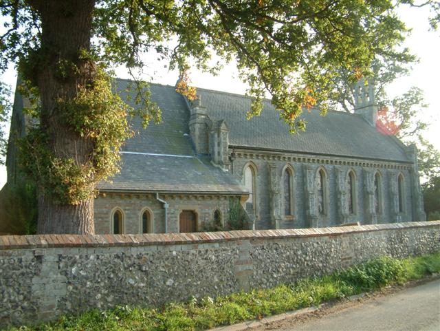 Church of England parish church of All Saints, Dunsden Green, Oxfordshire